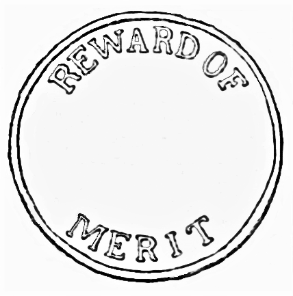 Sketch of reverse side of medal awarded by British Ceylon government in 1818.